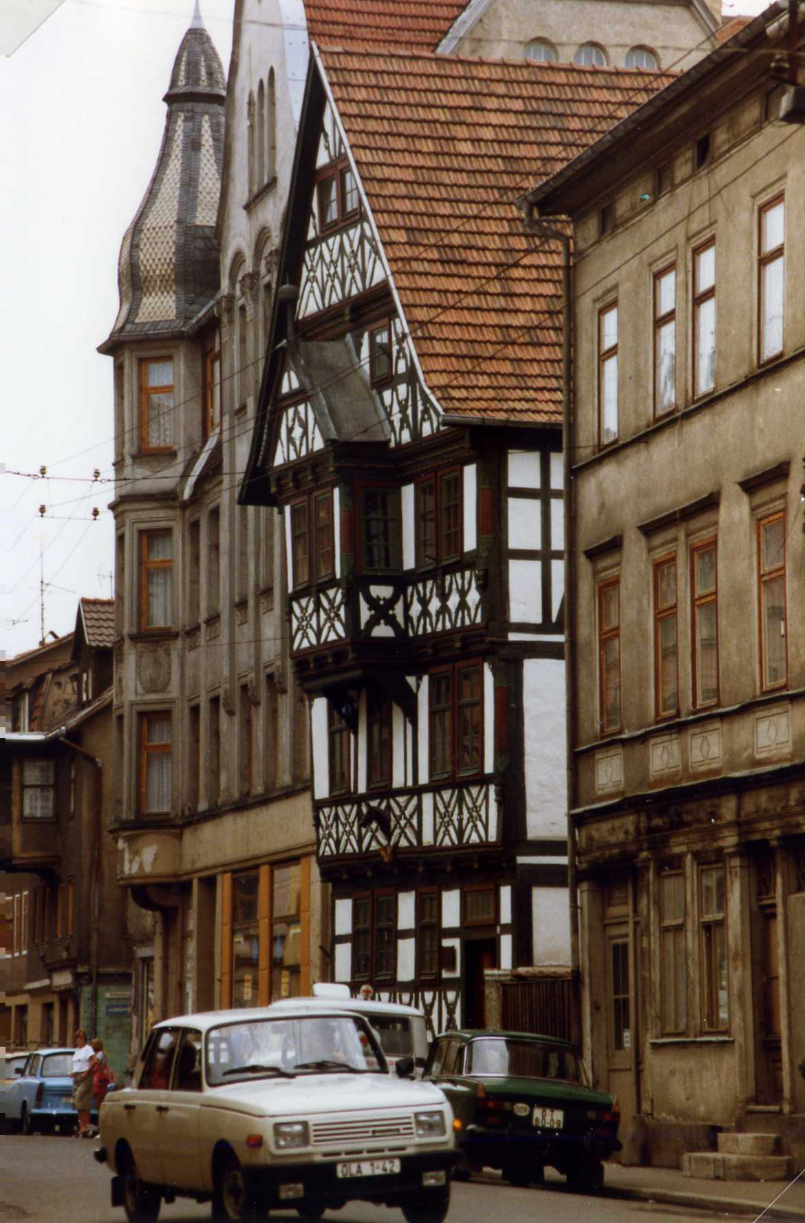 Meiningen, August 1989, Suhl Bezirk registrations commenced with an "O"